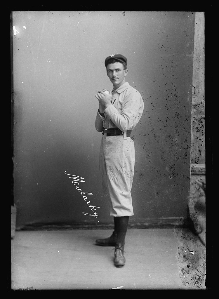 John Malarkey - Washington Senator photographed in C. M. Bell Studio